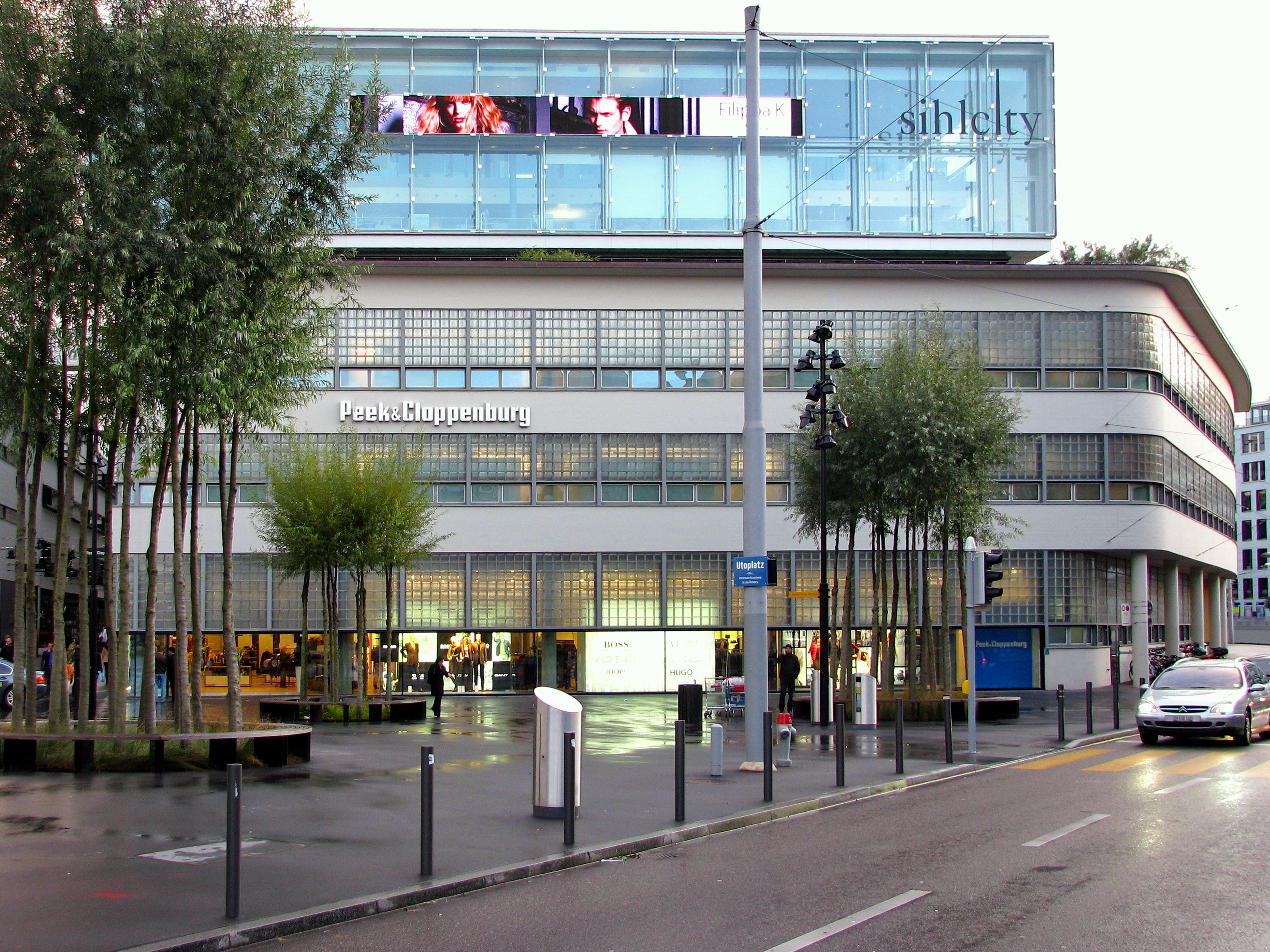 Zürich : Sihlcity, Utoplatz entrance, seen from the West